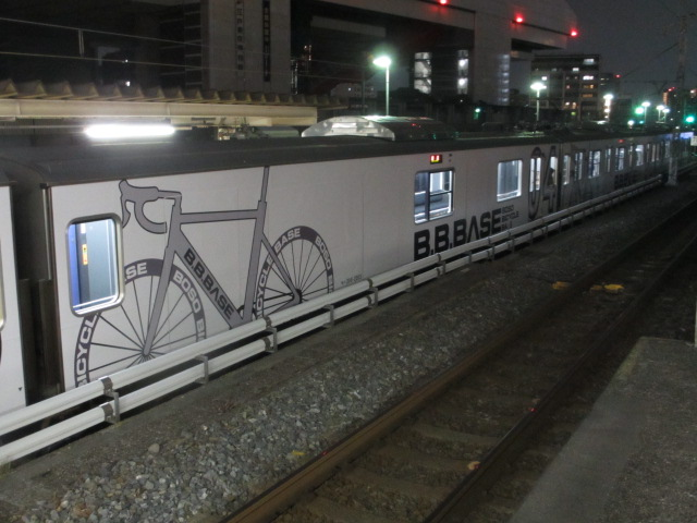 JR East 209-2200 series EMU set J1 "BOSO BICYCKE BASE" at Ryogoku Station.